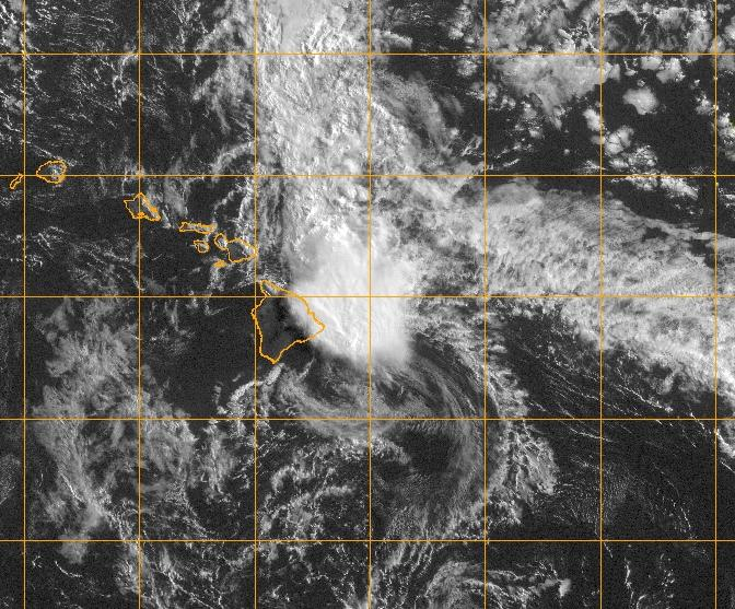 Satellite image of Tropical Depression Daniel to the east of Hawaii